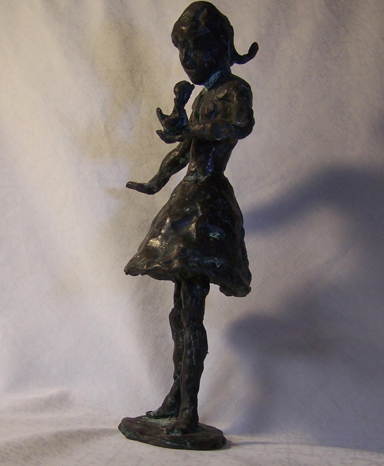 Girl with goose, bronze, ca 25 cm, 1978 (WV-Nr.5423), by Margret Hofheinz-Döring